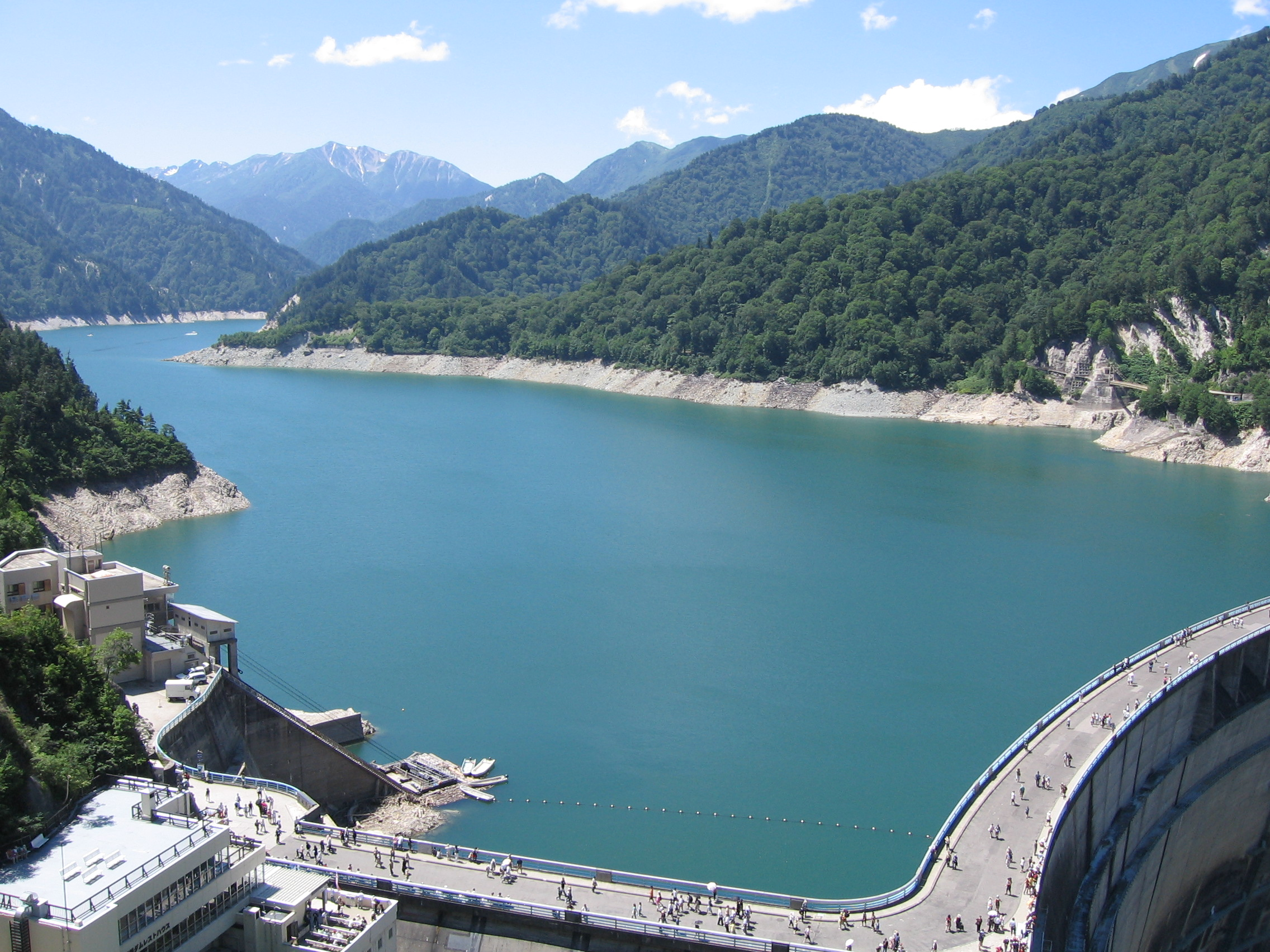 The view of Lake Kurobe from the observation deck. In Ashikuraji, Tateyama, Naka Niikawa, Toyama, Japan.